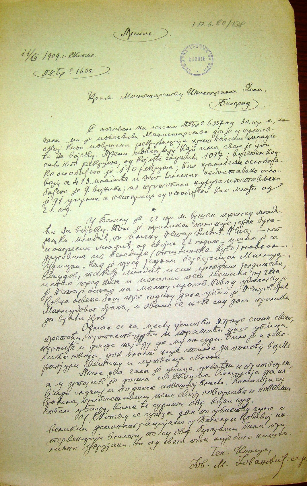 Report on the implementation of recruitment of Christians in the Ottoman army in the Preshevo Kaza. (11 December 1909) This media file is produced by Wikipedian in Residence in Category:Wikipedian in Residence at DARM in 2016.